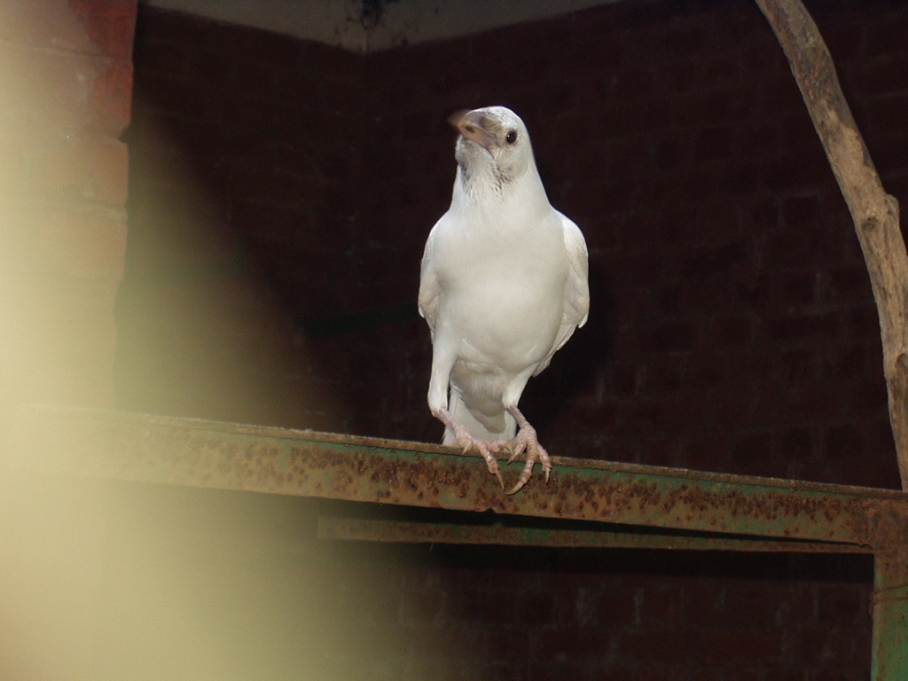 White crow, at Dhaka Zoo. -mamun2a